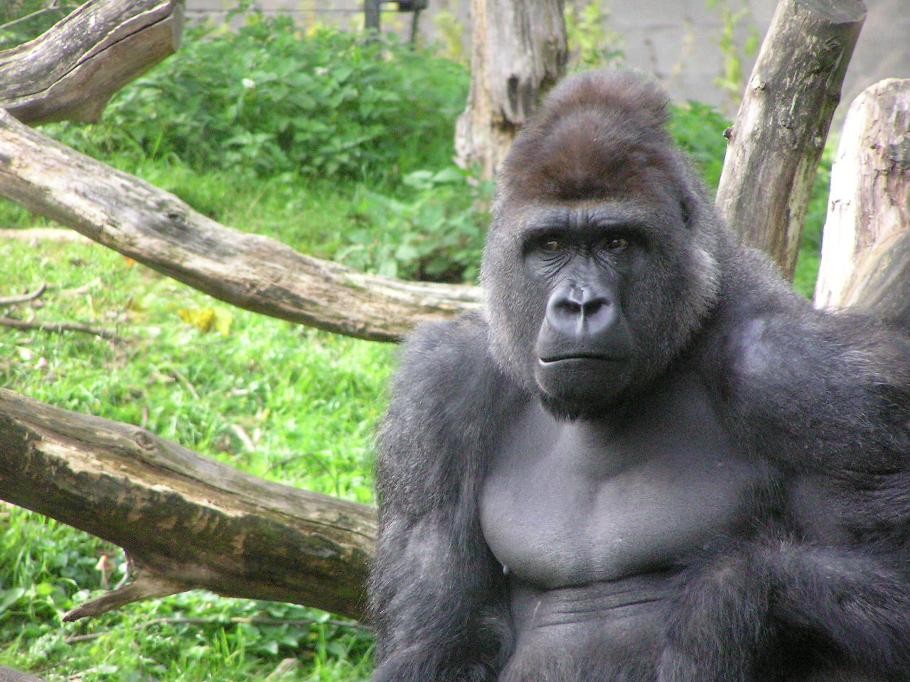 Photo from Apenheul Zoo, Antwerpen, Belgiumman